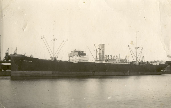 S/S Blankaholm. The vessel was torpeded and sunk outside Cuba while in convoy TAW-13, 18 August 1942.